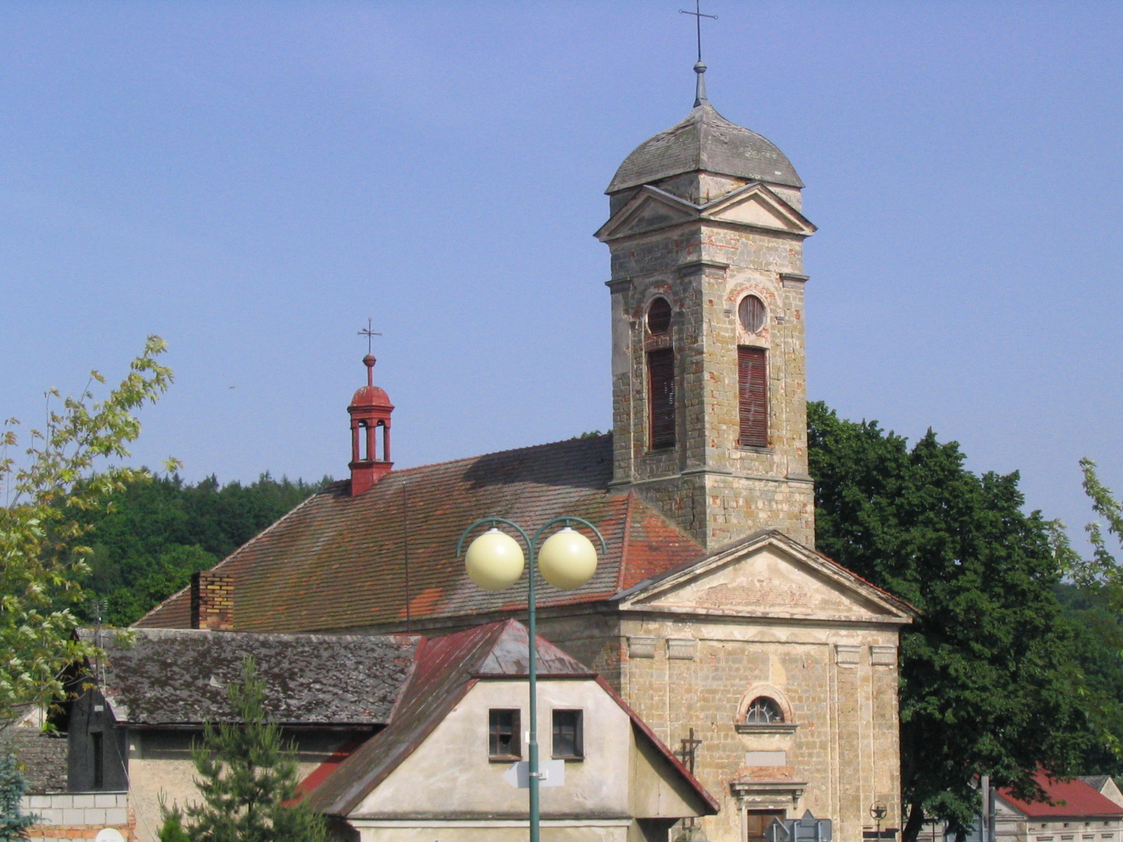 St Francis Seraphicus church in Kněžmost, Mladá Boleslav District, Czech Republic